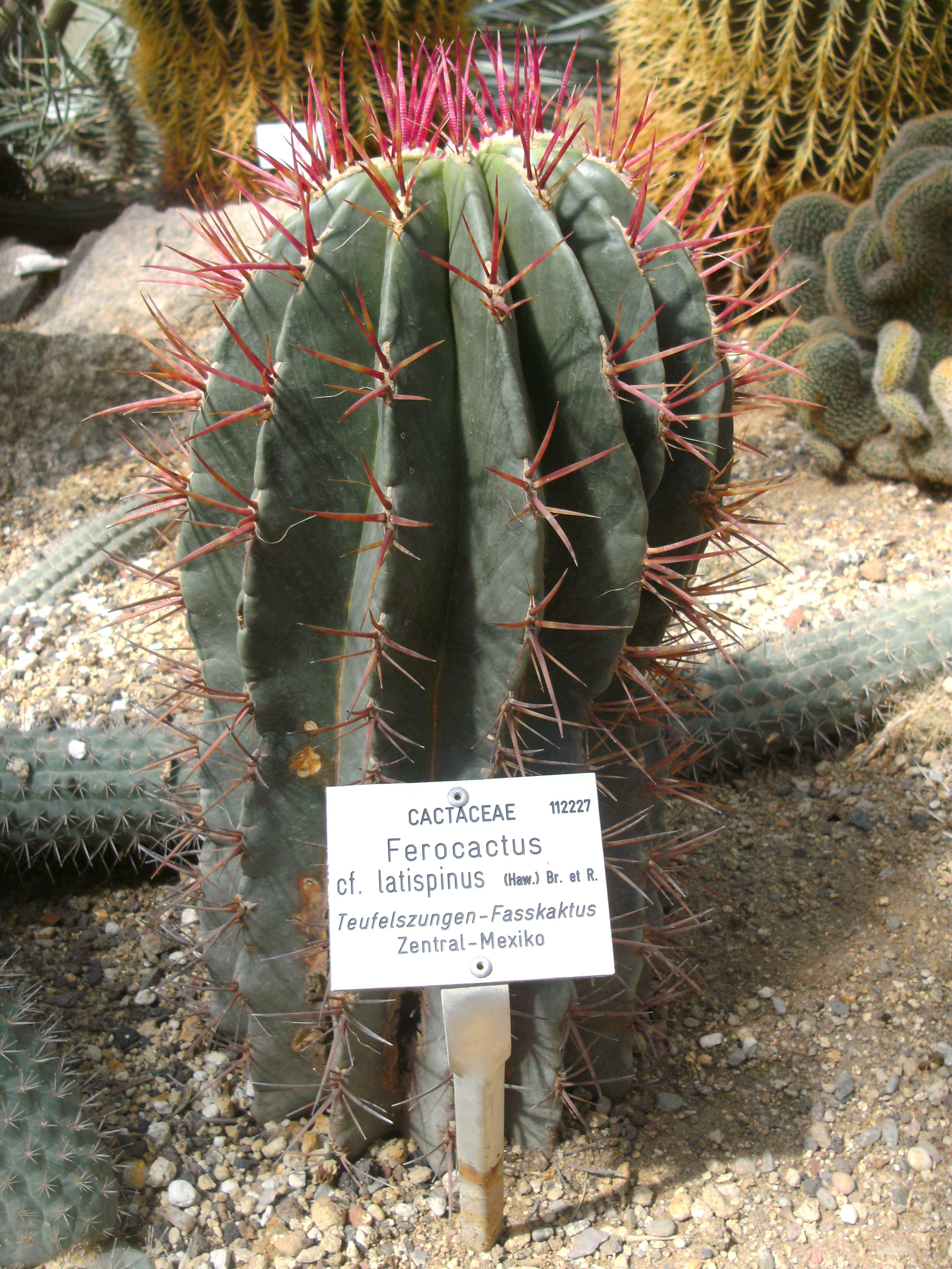 Ferocactus latispinus, Botanical Garden Heidelberg Germany